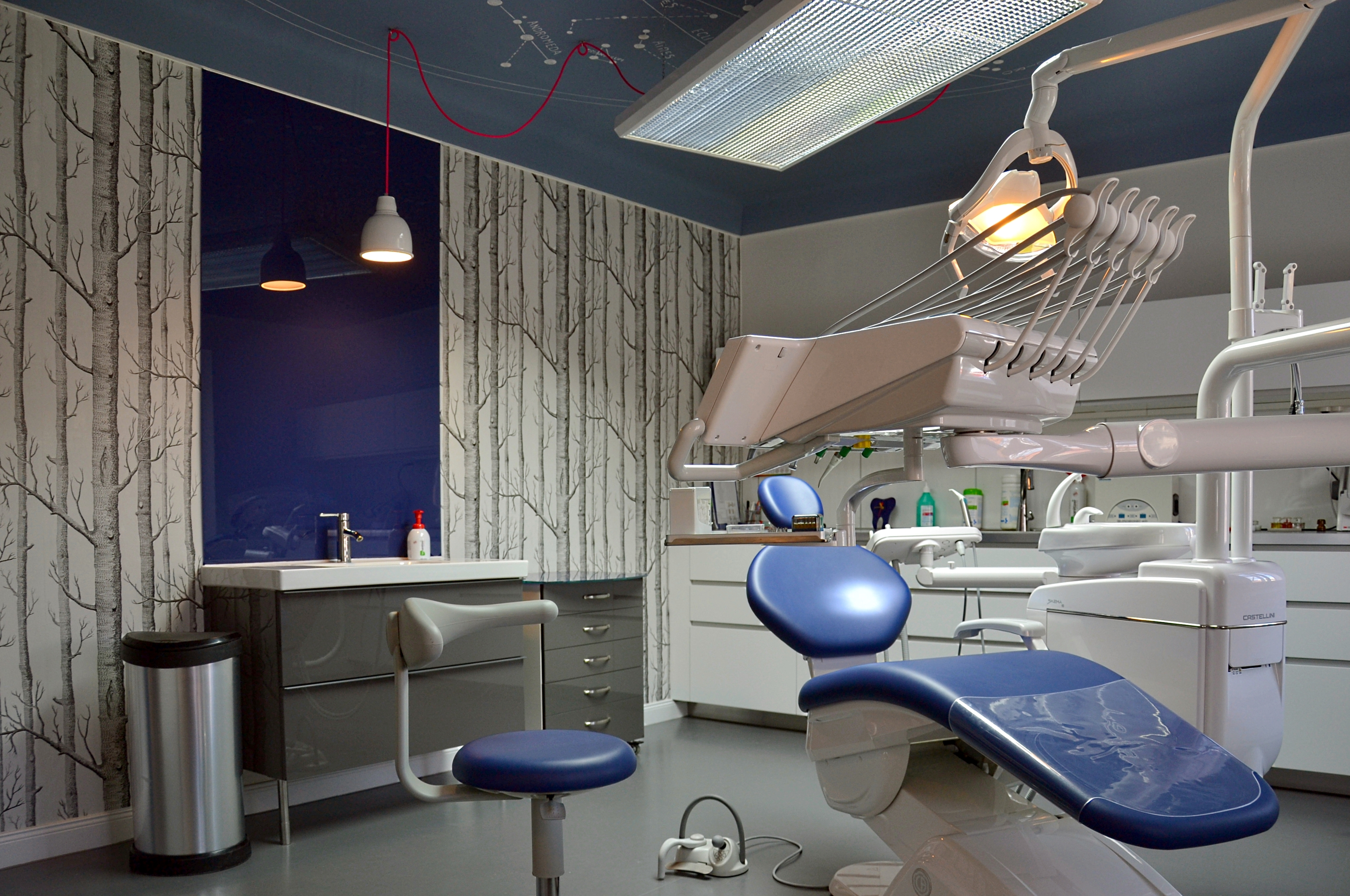 Doctor's office from a Dentist in Hungary Sopron Vakerület 22